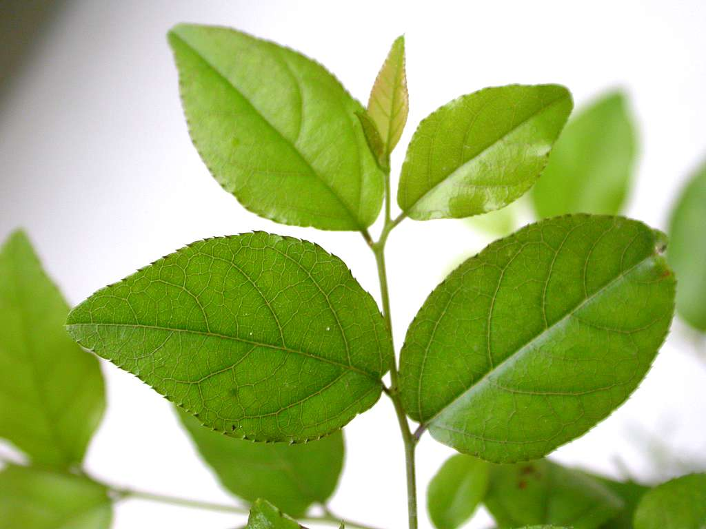 Sageretia thea (Syn. Sageretia theezans) leaves / feuilles